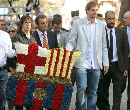 FC Barcelona tribute to Rafael Casanova on the National Day of Catalonia. (left to right) Football captain Carles Puyol, club president Sandro Rosell, FCB basketball player Roger Grimau and football manager Josep Guardiola deposit wreaths and floral decorations at the foot of the Rafael Casanova monument.